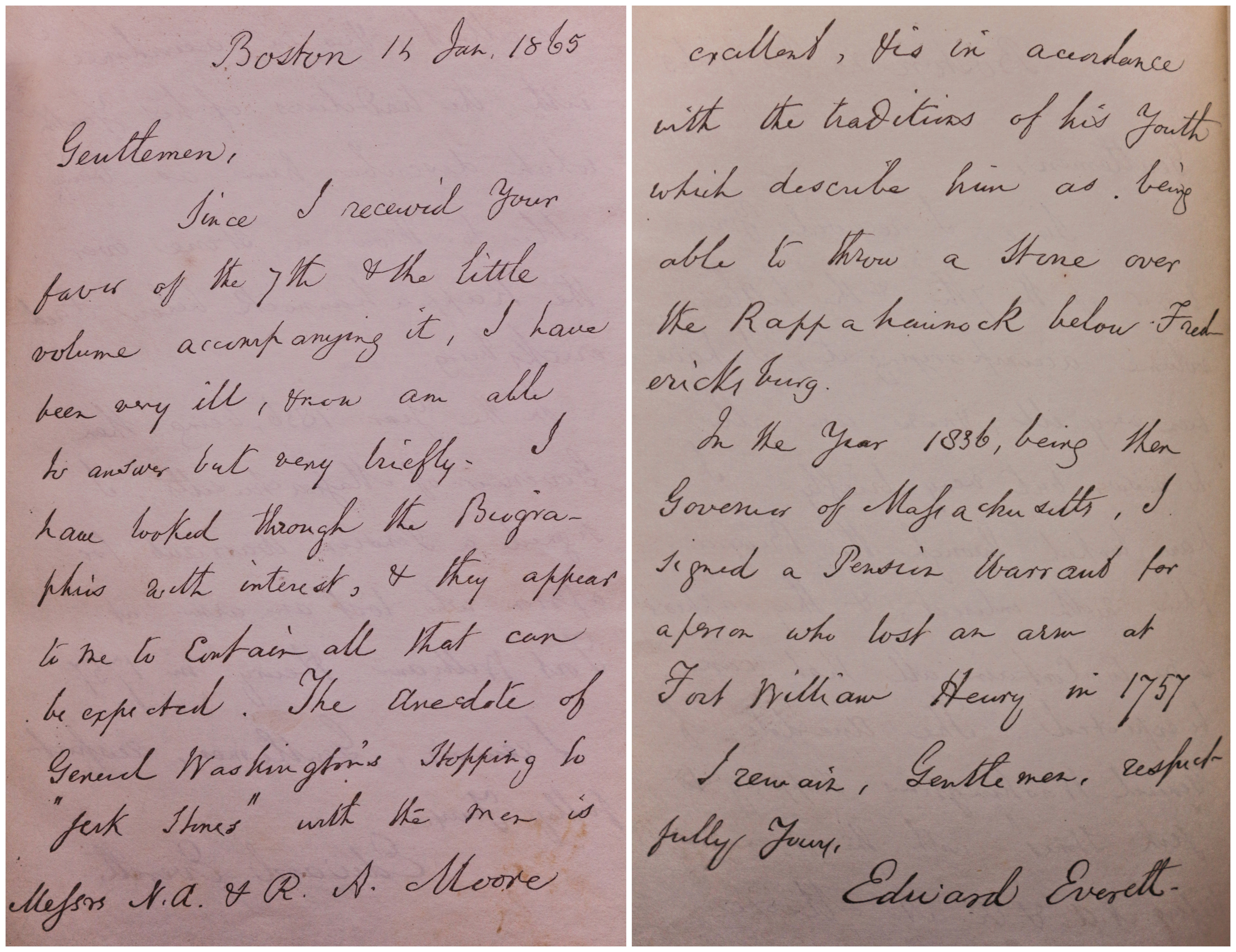 Edward Everett's Letter To The Publishers N. A. & R. A. Moore Regarding Their Book 'The Last Men Of The Revolution'